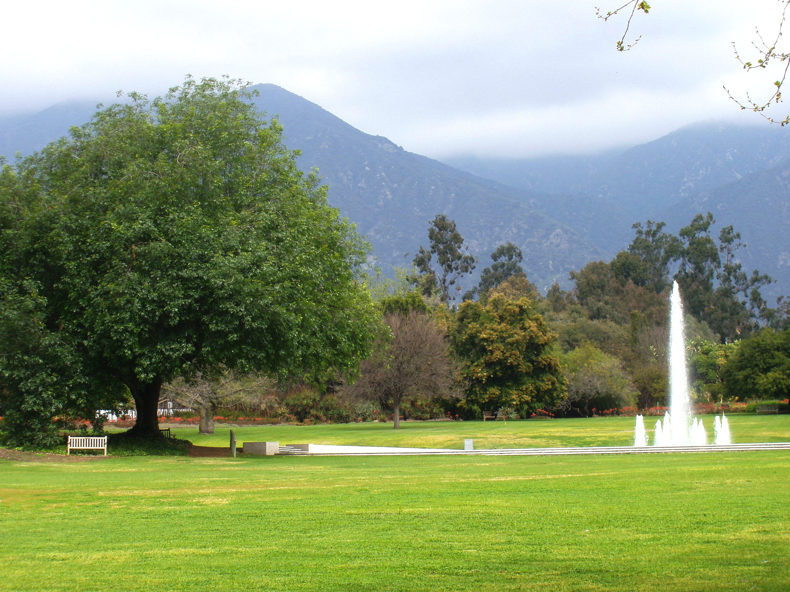 Central fountain in the Los Angeles County Arboretum — with view of San Gabriel Mountains behind, located in Arcadia, Southern California. Credits Photograph taken by me in March 2006.